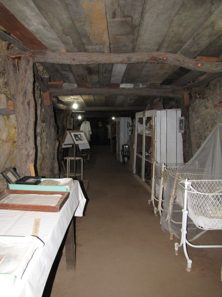 Former Underground Hospital, Mount Isa - tunnel (2013)